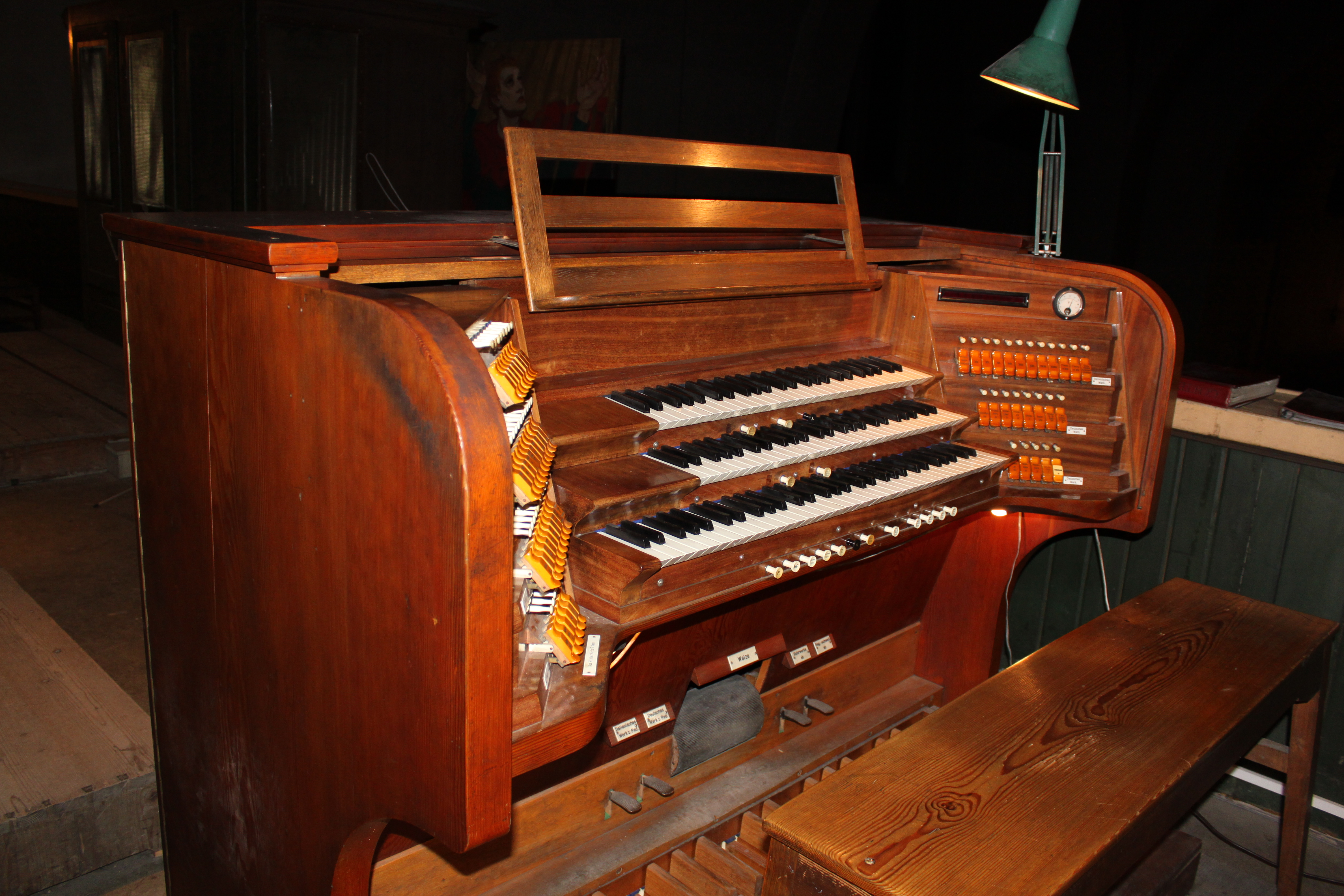 Console of the organ of Alt-Ottakring parish church, Vienna, built between 1935 and 1938 by Josef Mertin and Wilhelm Zika